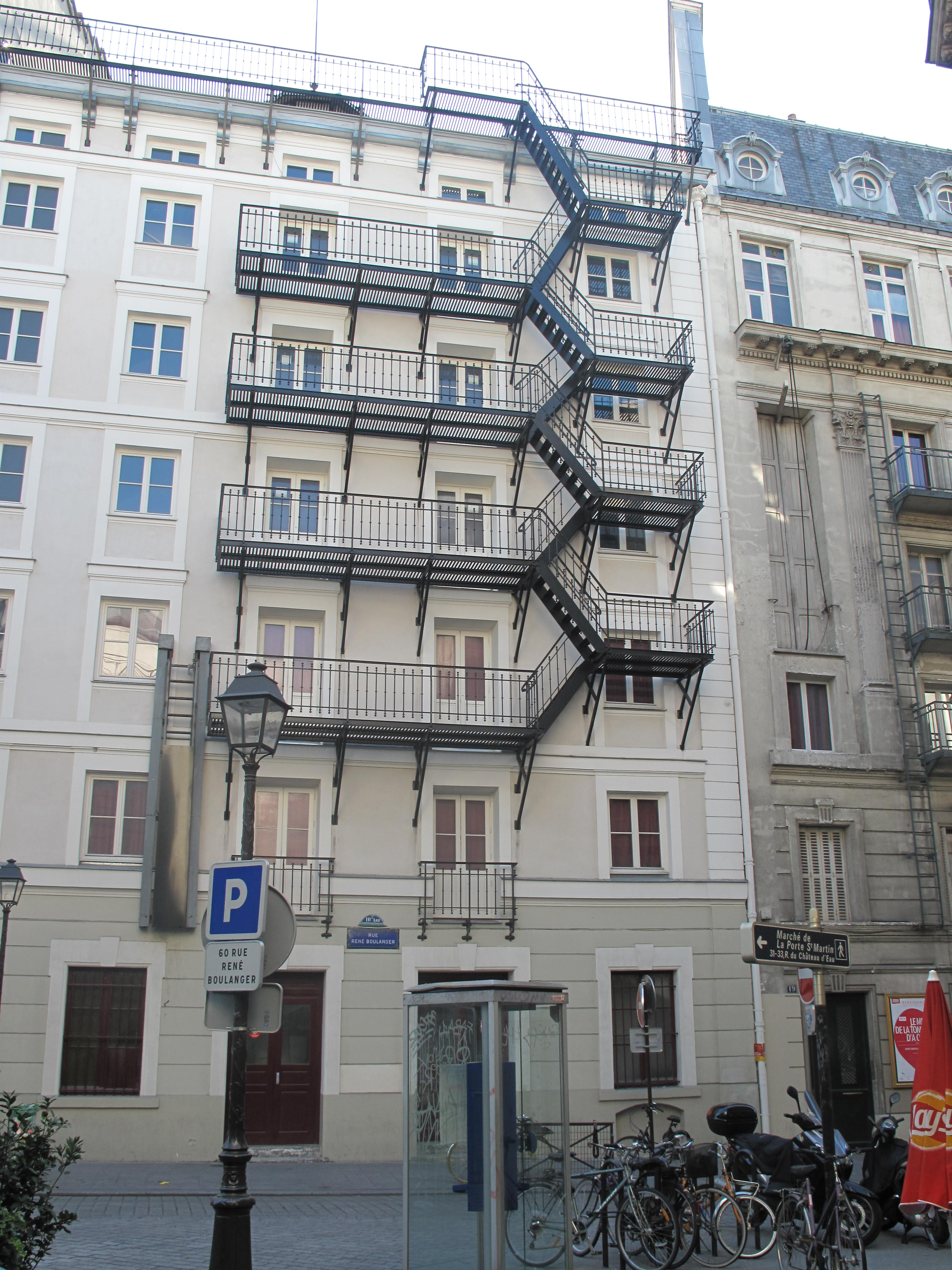 Outside fire escape, New-York style : 17 rue René Boulanger, 10th arr. Paris.